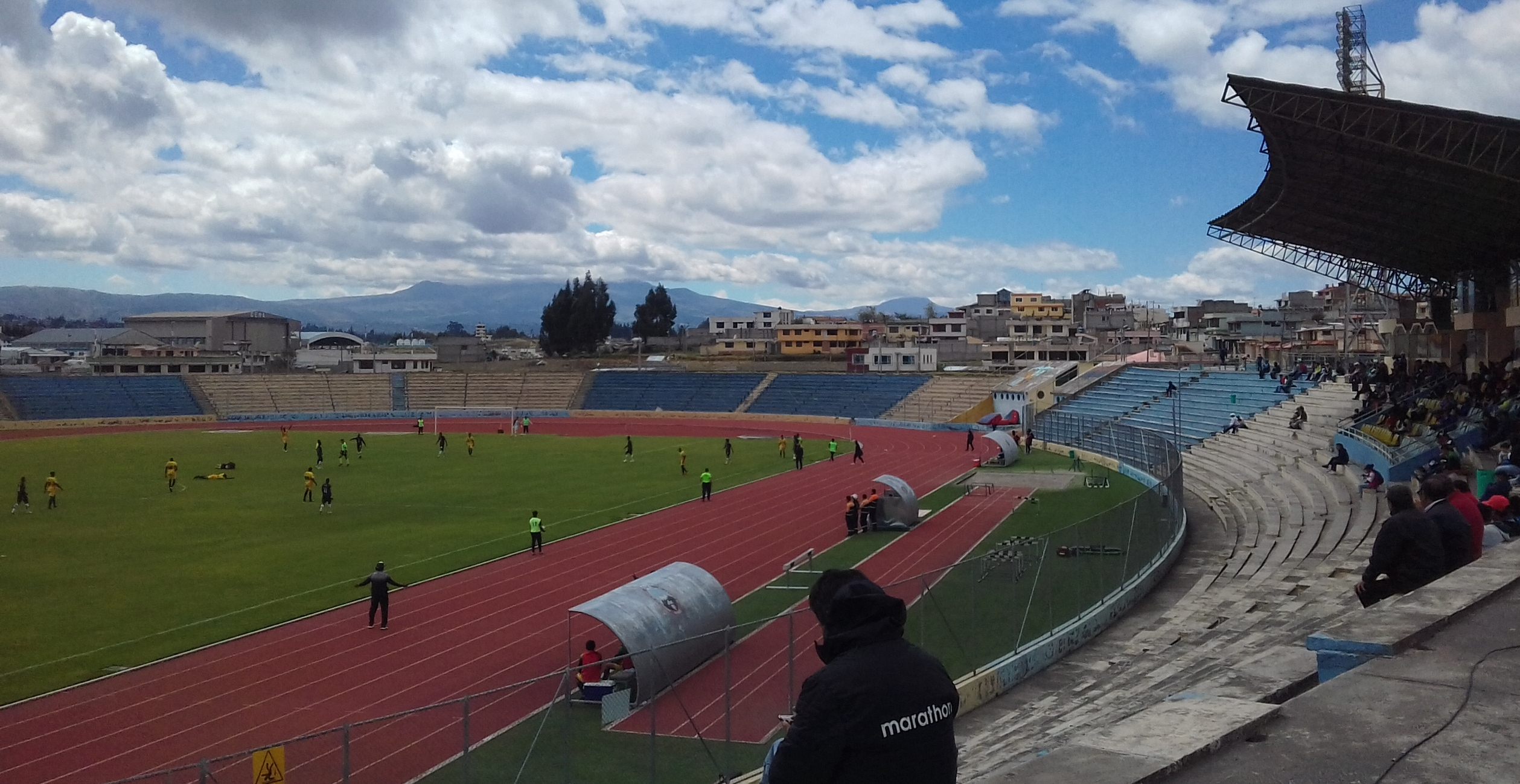 La Cocha Stadium.